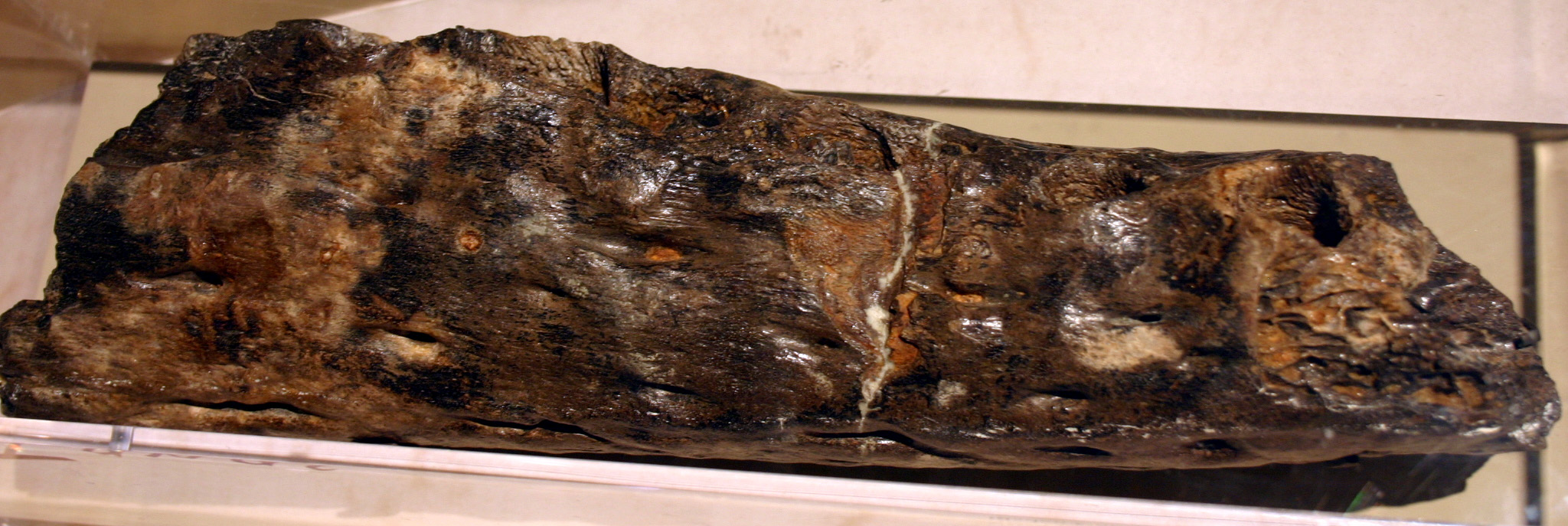 Section of a Deinosuchus jaw, North Carolina Museum of Natural Sciences.